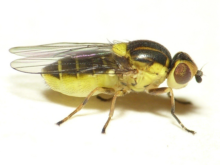 Chlorops pumilionis, location: The Netherlands - Rhenen - Blauwe Kamer